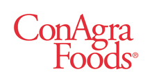 Old ConAgra Foods Logo from, used until June 2009